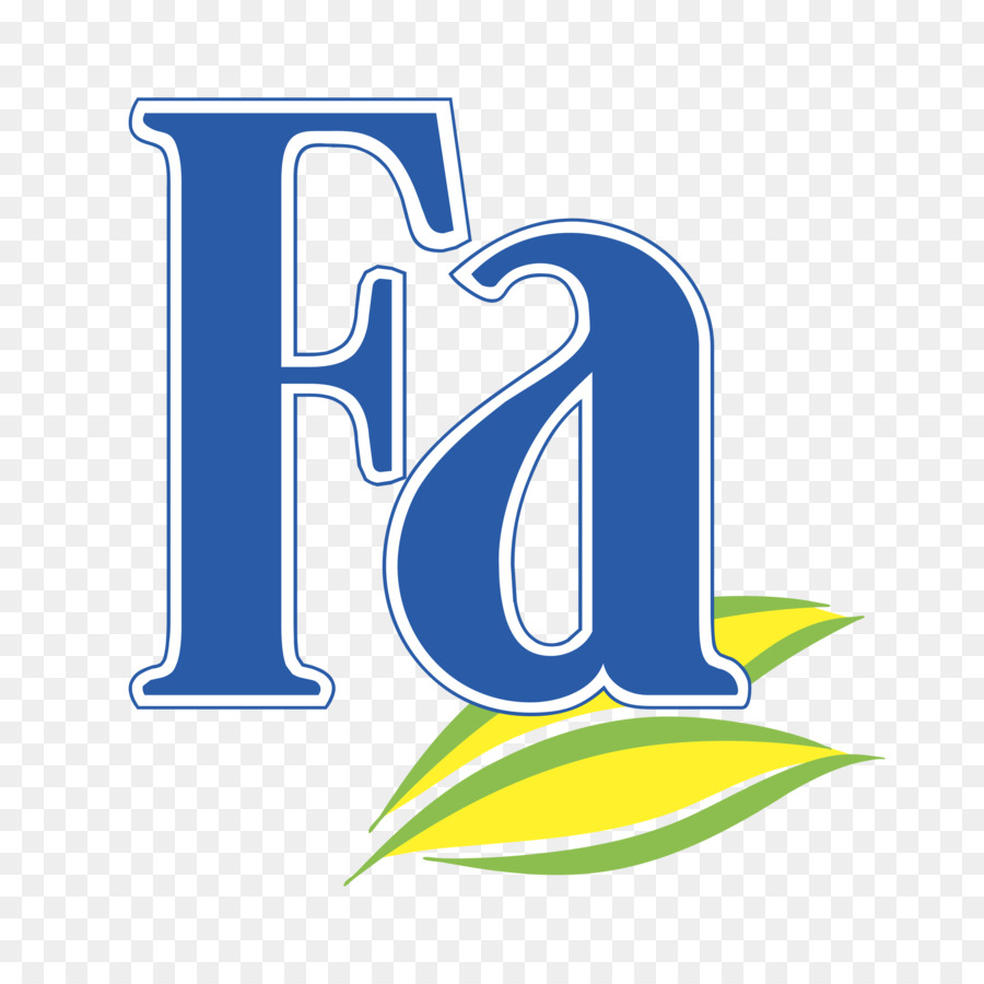 Logo of Fa